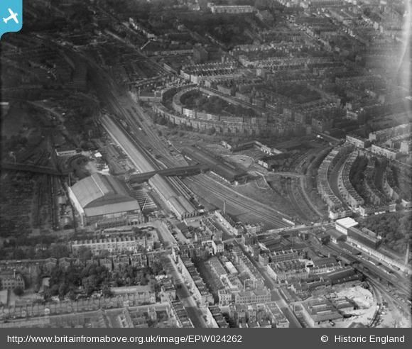 Britain from above: aerial view of Lillie Bridge Depot and Earl's Court grounds 1928